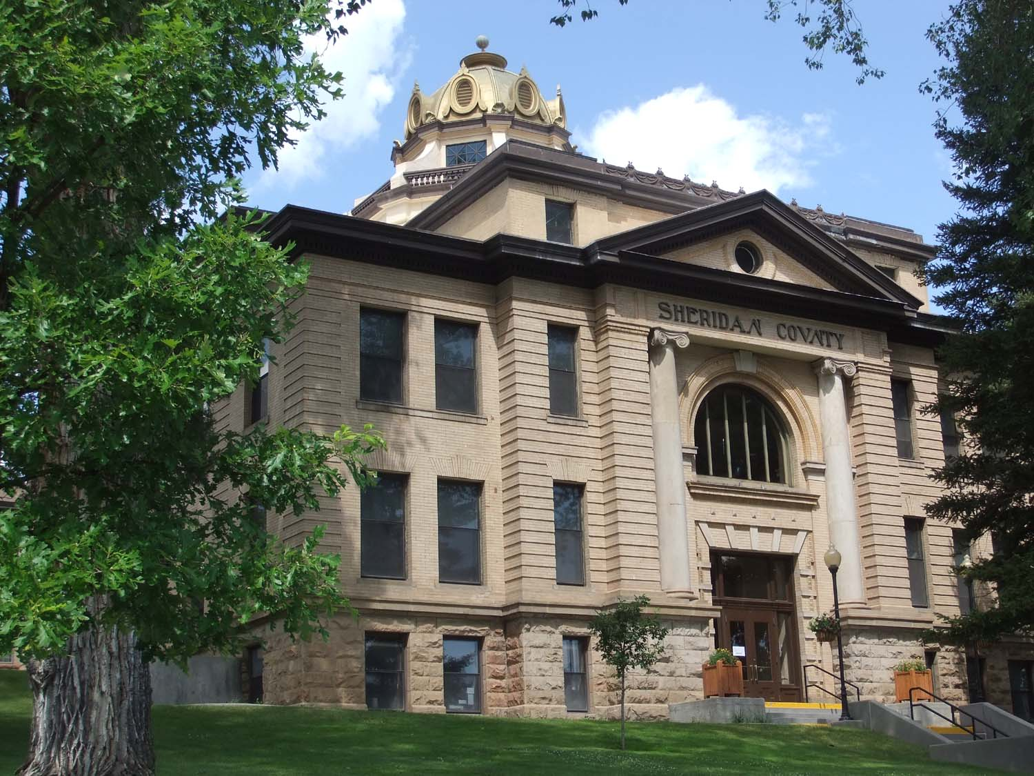 Sheridan County Courthouse 224 South Main Street Sheridan, Wyoming 82801, USA Photo taken on July 6, 2013. The marble cornerstone was laid on October 1, 1904, with occupancy on August 22, 1905. The architectural firm was Link & McAllister. The general contractor was Ferguson and Pearson. This neo-classical structure was added to the National Register of Historic Places on November 15, 1982. This information was compiled from ephemera in the Sheridan County Government Courthouse file, located in the Wyoming Room of the Sheridan County Fulmer Public Library, 335 West Alger Street, Sheridan, Wyoming 82801, USA.